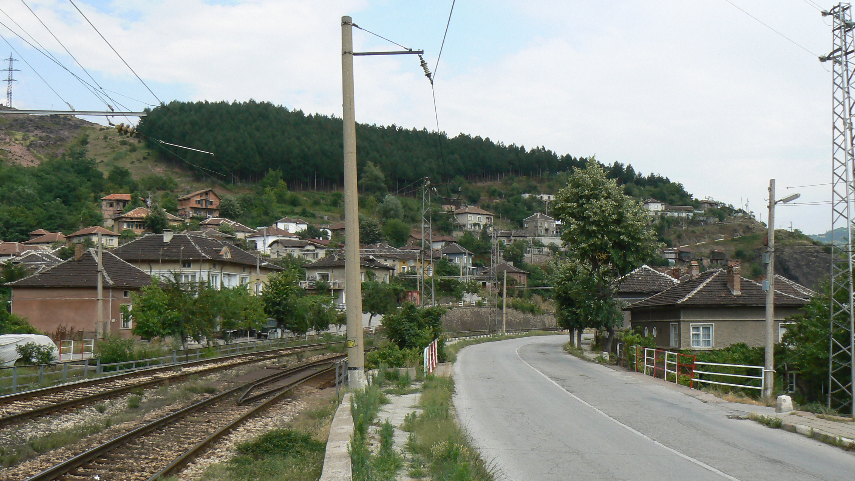 View from village Zverino, Bulgaria